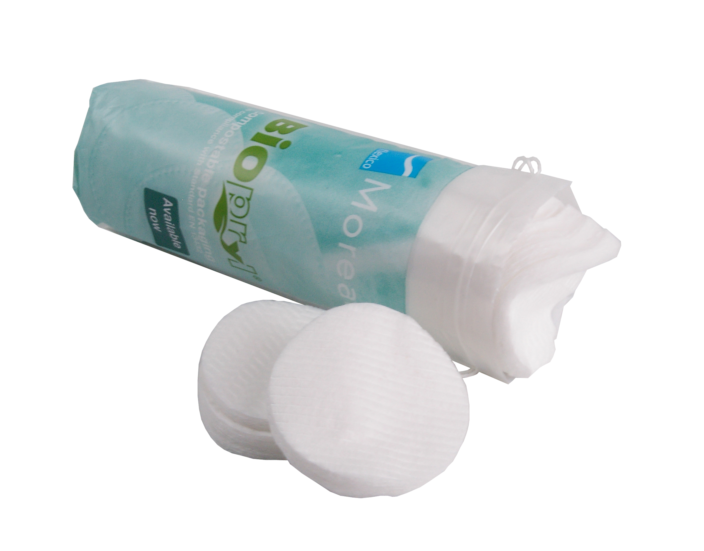 Cosmetic_Bag_made_of_PLA-Blend_Bio-Flex